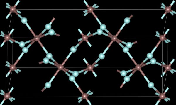 Structure of FeF3, AlF3 or InF3 Journal = JOURNAL OF FLUORINE CHEMISTRY, Year = 1984, Volume = 24, Page = 327–340, Title = ZUR KENNTNIS VON AlF3 UND InF3, Authors = Hoppe R., Kissel D.